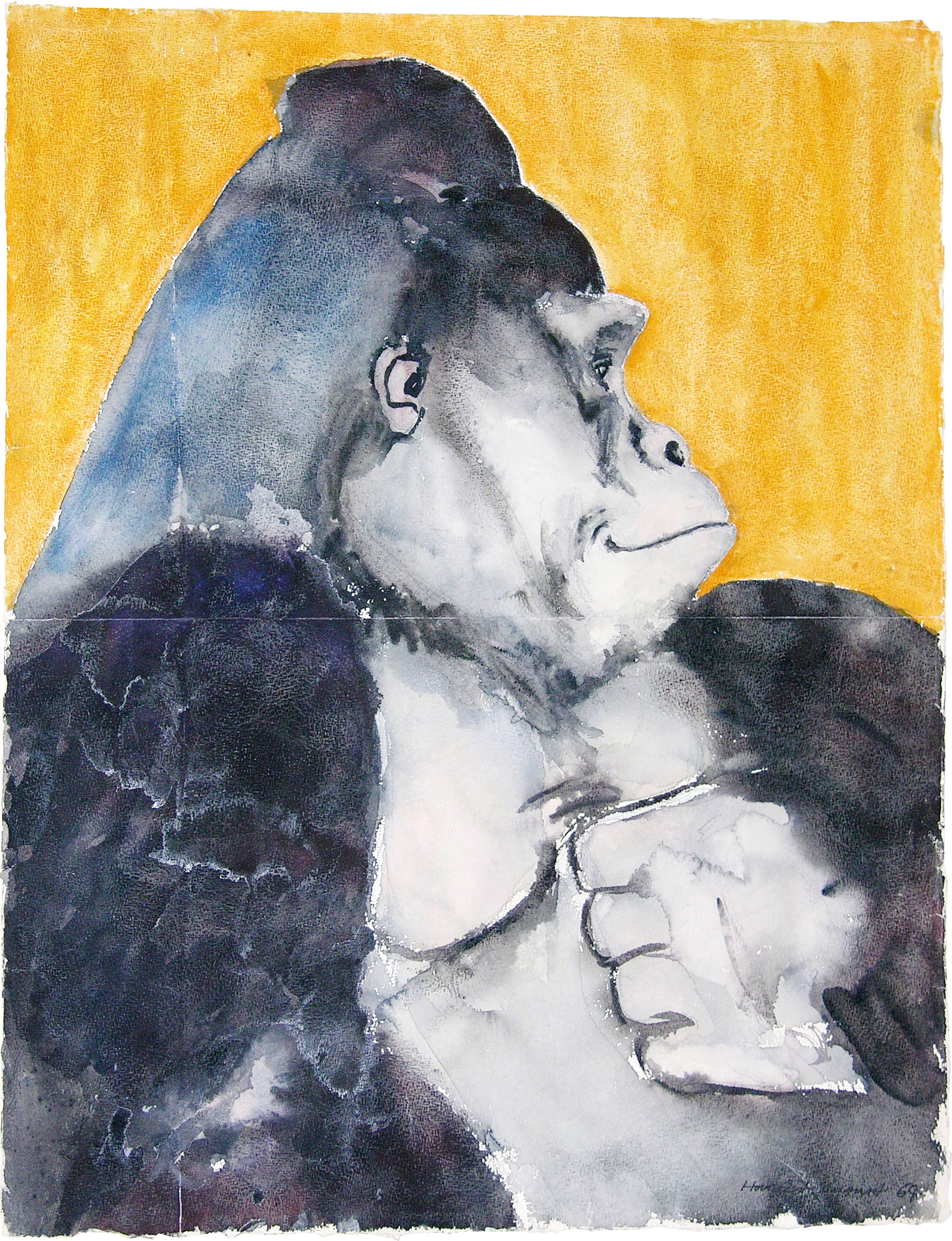 Monkey sitting, waterpainting, 1964